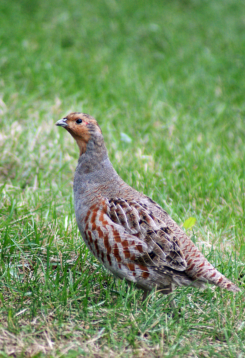 Grey Partridge Perdix perdix - photographed within Edmonton city, Alberta, Canada limits crossing a roads and walking along grassy areas alongside the road. This illustration was made by Julia Adamson Please credit this if used outside Wikipedia